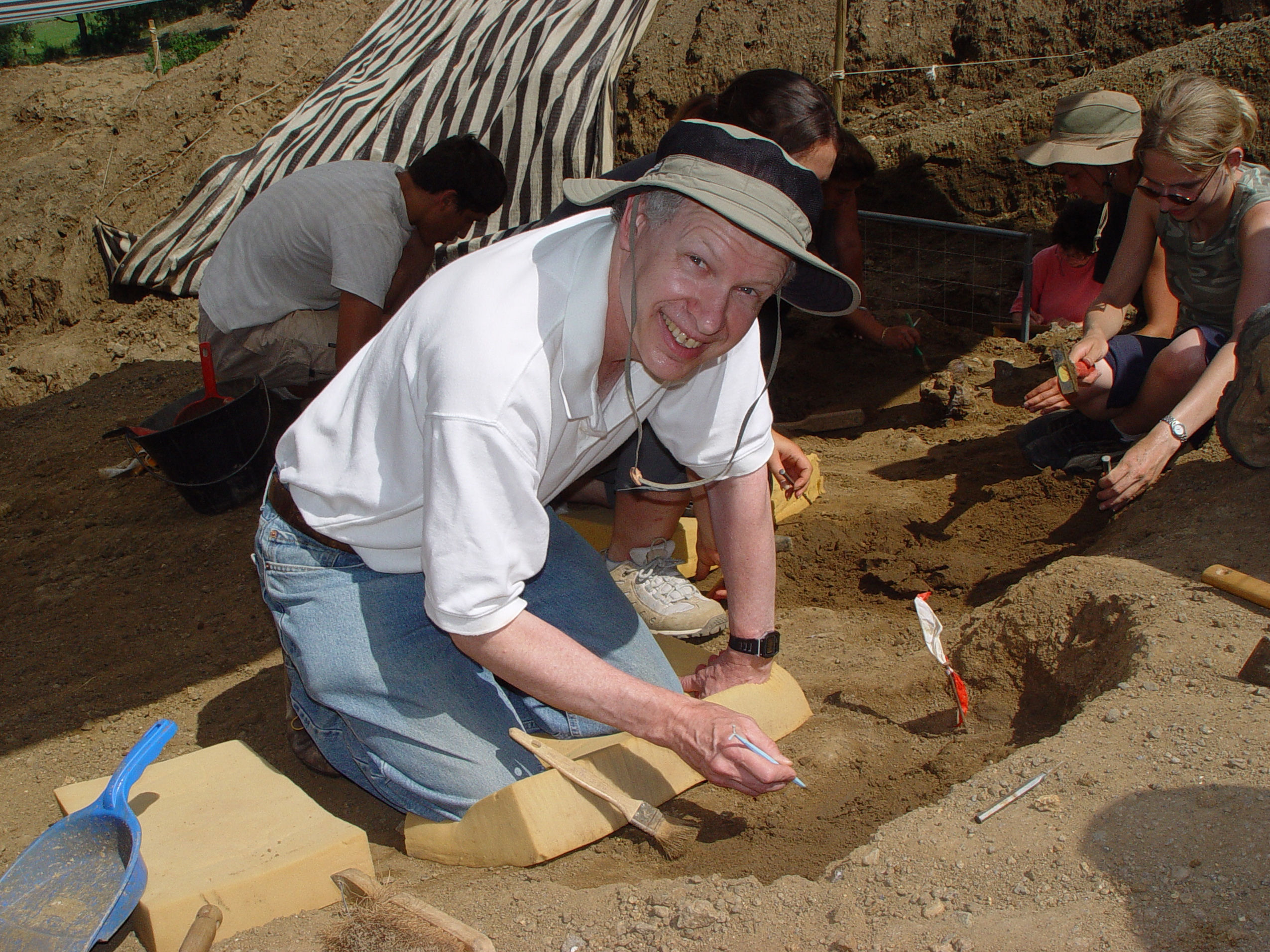 Eric Delson excavating at the 2 million year old fossil mammal site of Senèze (near Brioude, Haute-Loire, France) in 2006